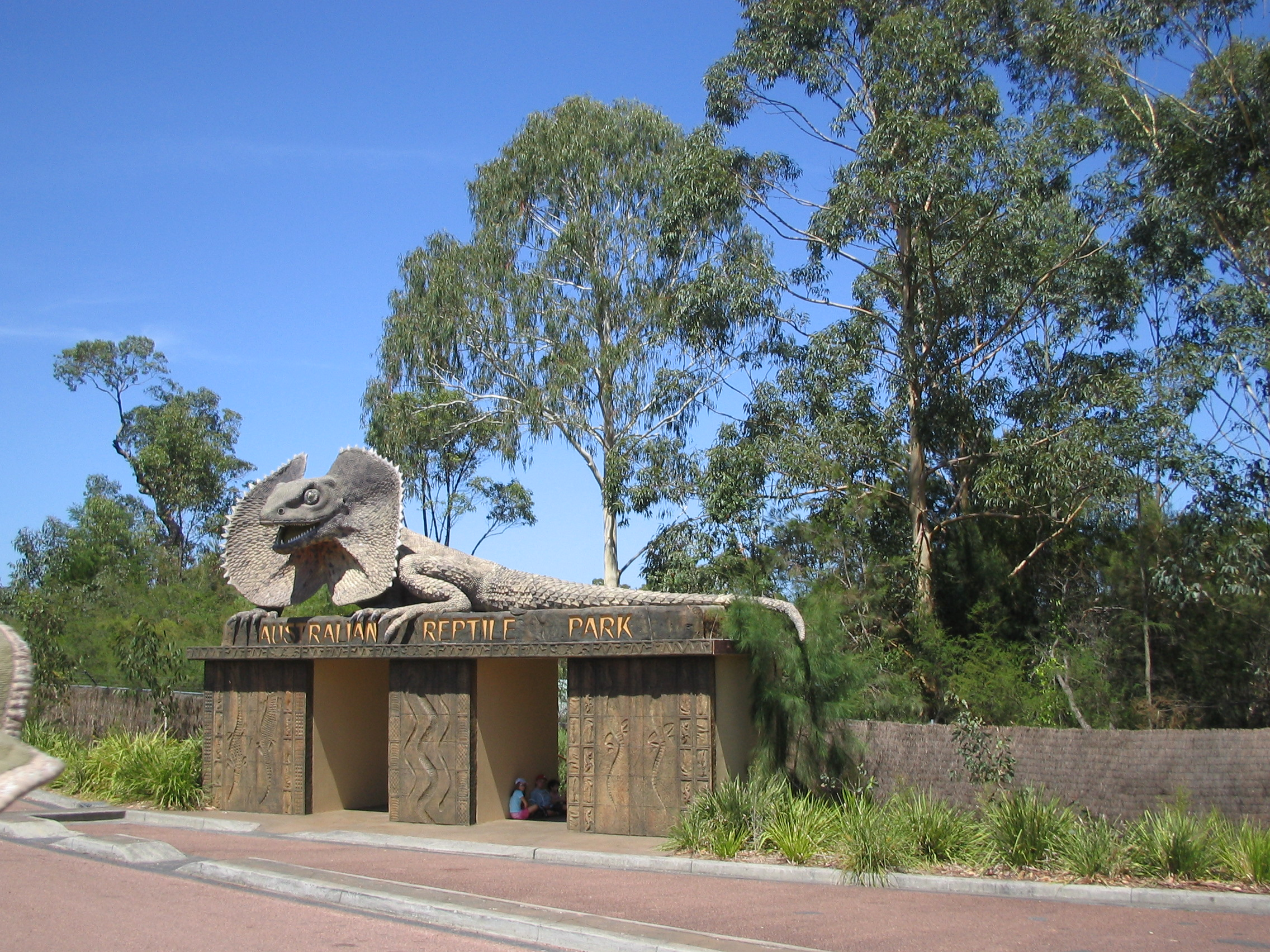 Entry to the Australian Reptile Park